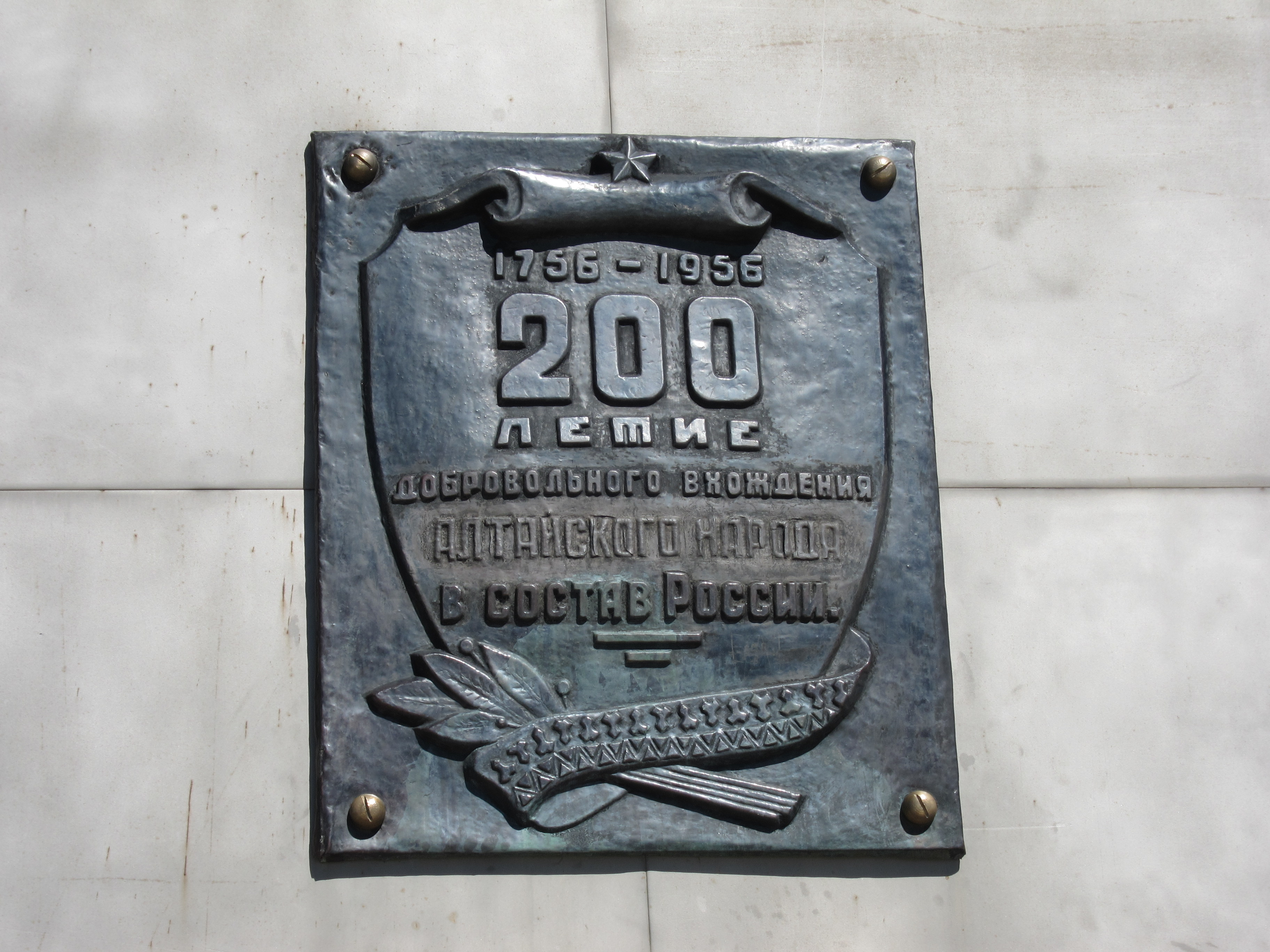 Plaque on Seminsky Pass commemorating the 200th anniversary of Altai's inclusion into Russia